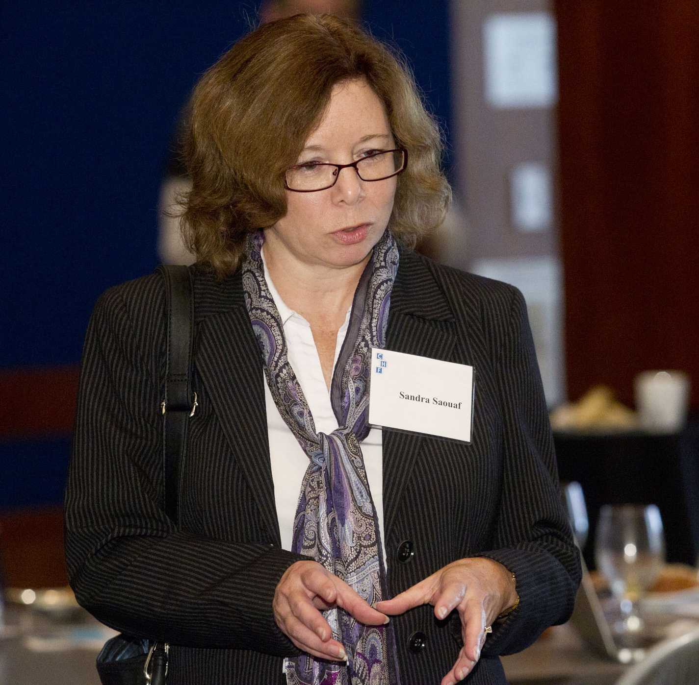 Photograph of Sandra Saouaf, Atlantic Bio Sci, LLC, at "Frontiers of Discovery: AWIS at 40 Years", celebrating the founding of the Association for Women in Science (AWIS), taken 21 October 2011, at the Chemical Heritage Foundation, Philadelphia, PA, USA.